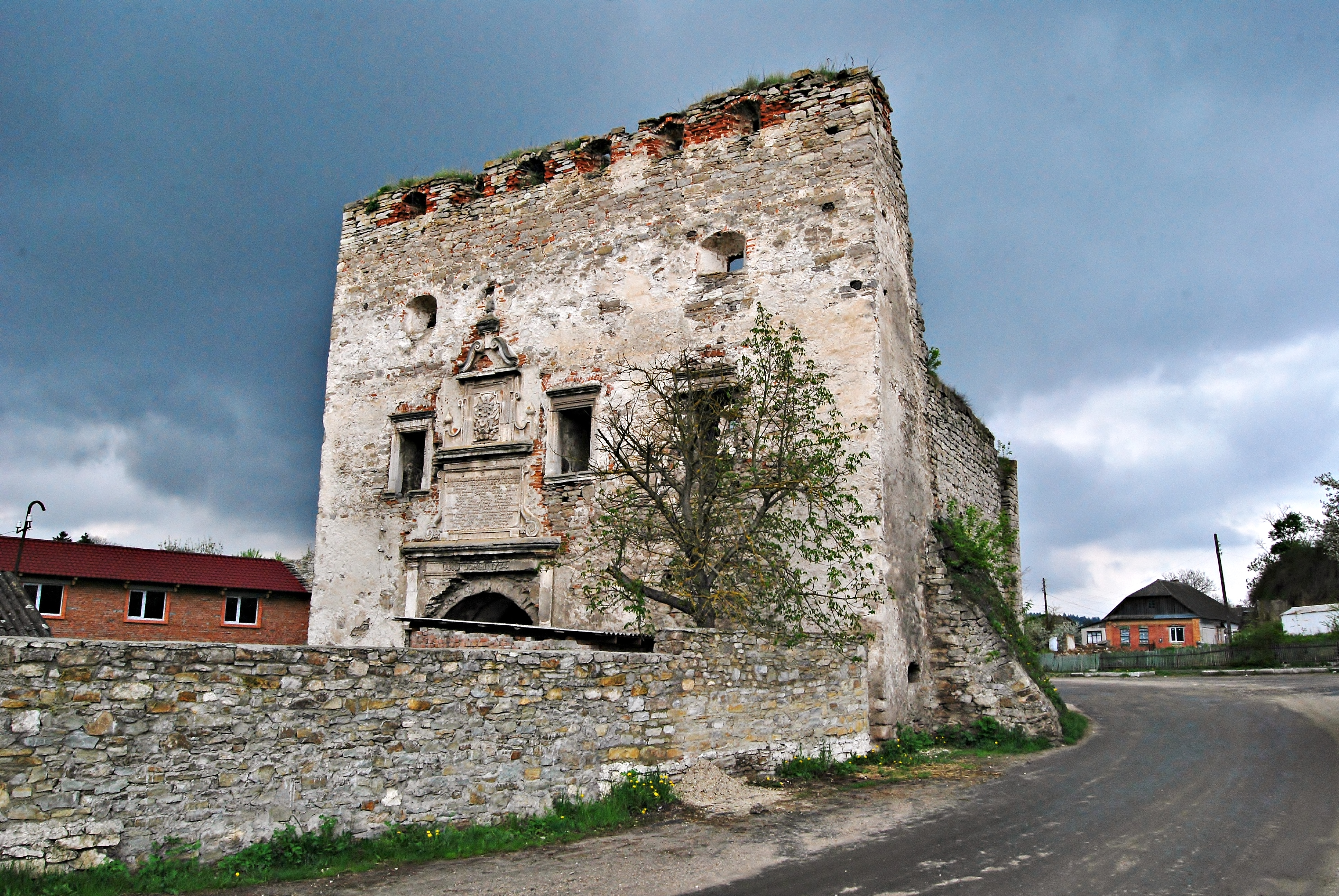 Town Gate of XV - XVI centuries in Sataniv, Horodok Raion, Khmelnytskyi Oblast